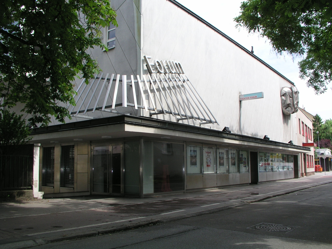 Theater Forum Schwechat